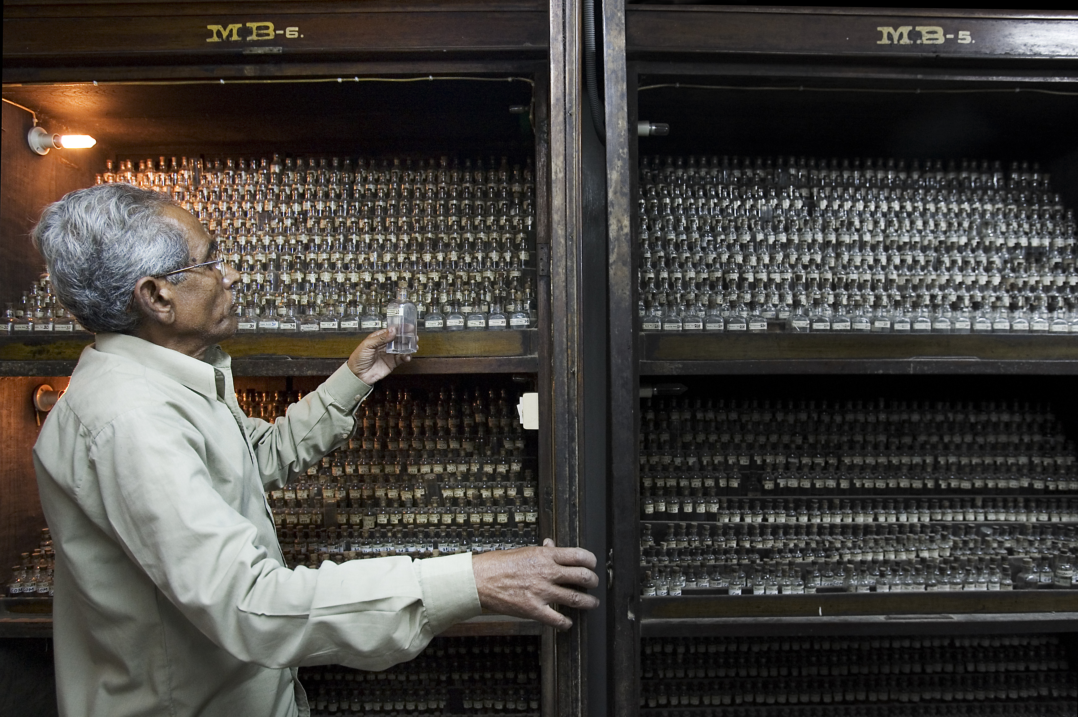 Pharmacist in Homeopatic pharmacy Varanasi Benares India